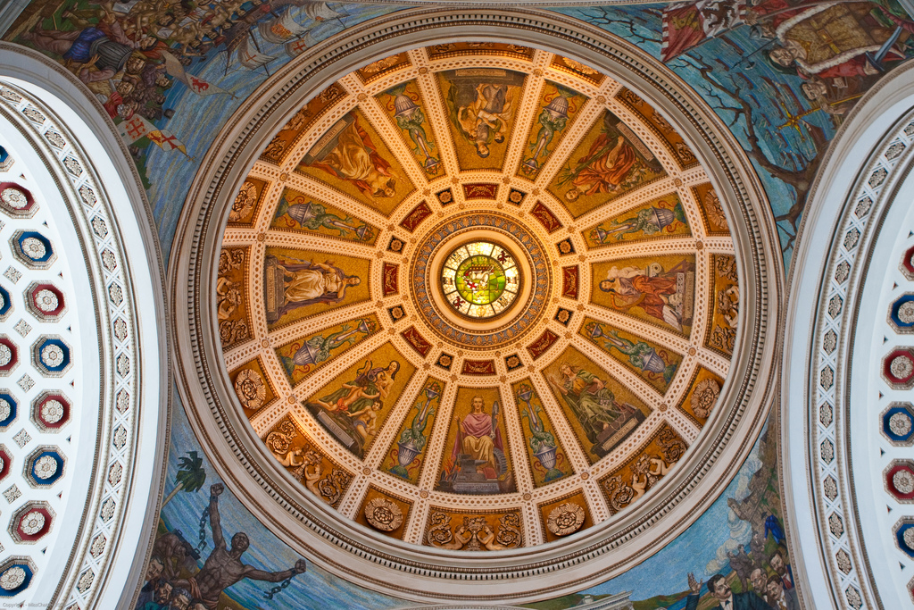 Capitol building dome interior, in San Juan, Puerto Rico.